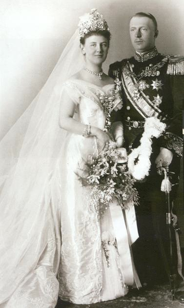 Wilhelmina of the Netherlands and Hendrik of Mecklenburg-Schwerin